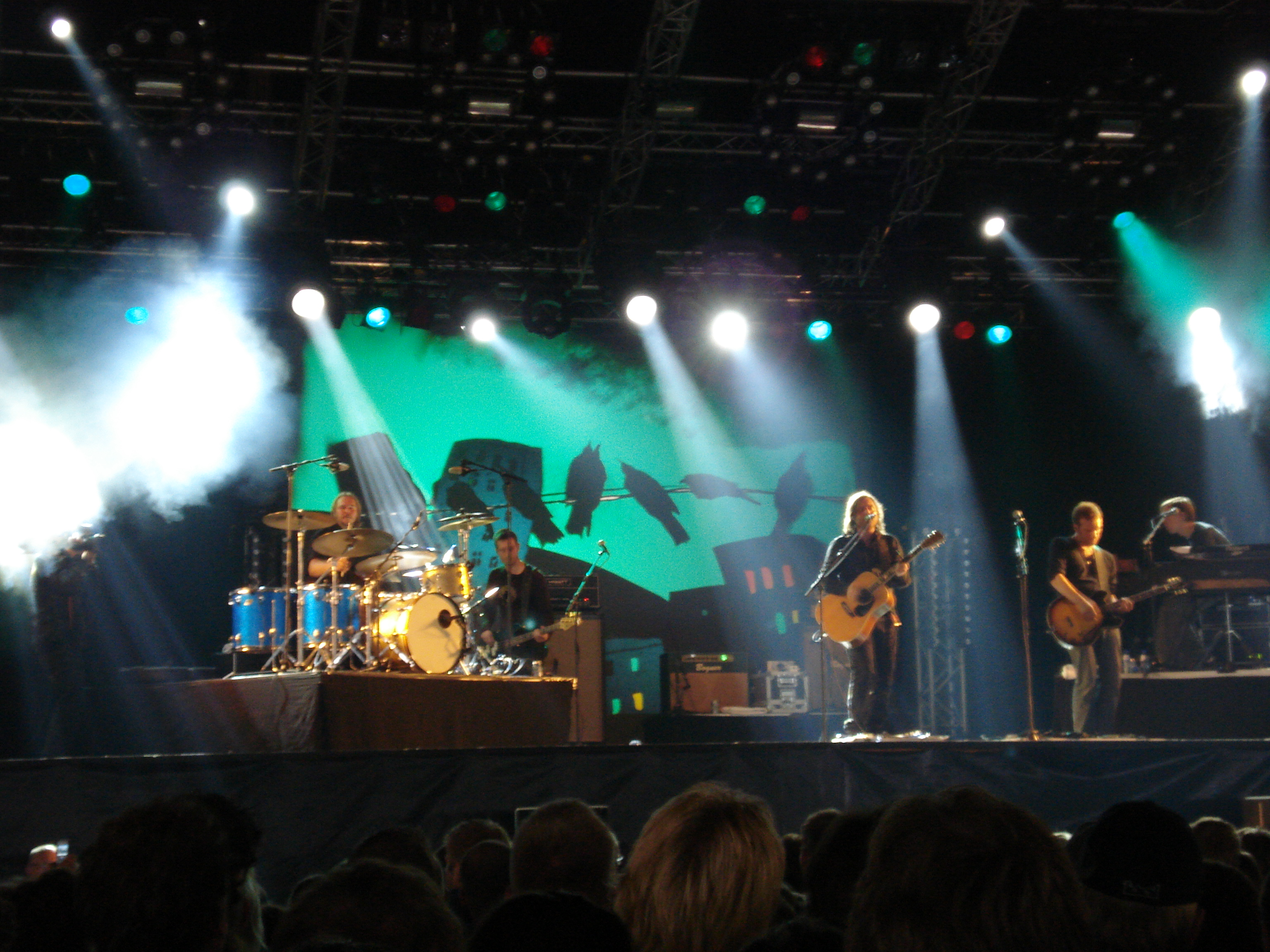 Saybia at Lowlands (A Campingflight to Lowlands Paradise) 2007